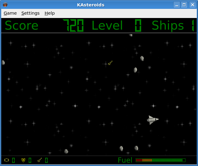 This is a screenshot of a KAsteroids game.